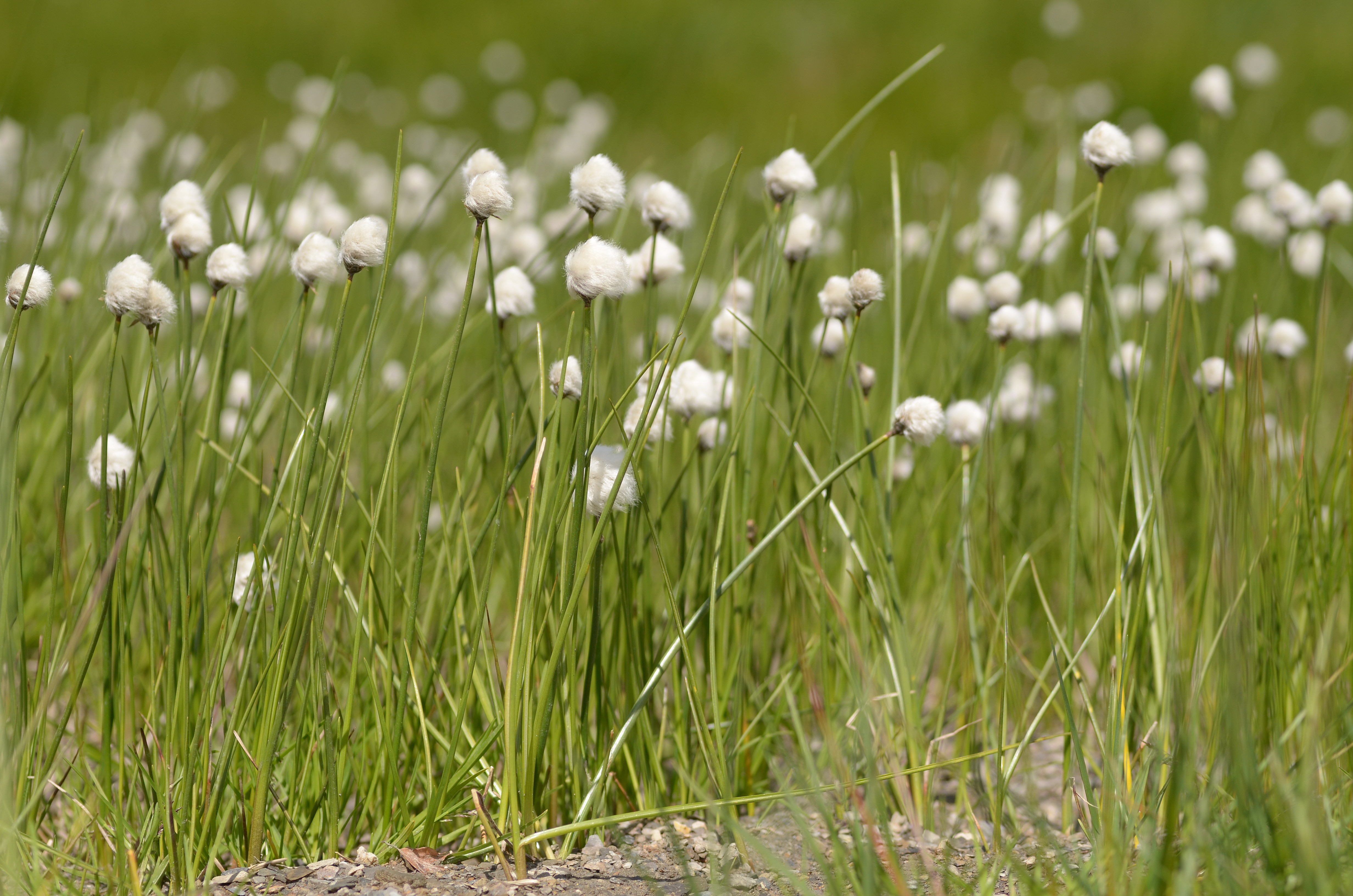 Eriophorum scheuchzeri in the Swiss Alps